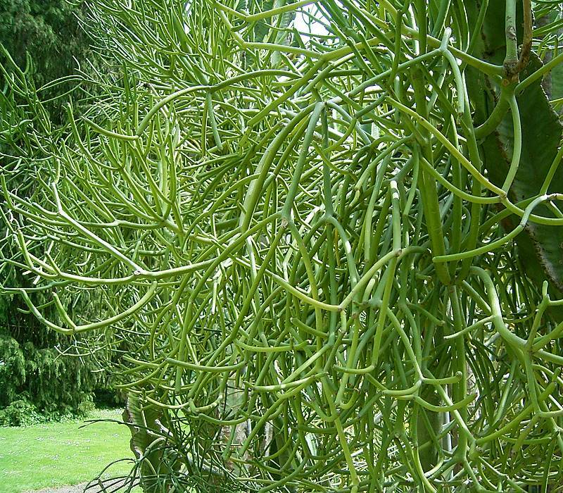 Euphorbia tirucalli